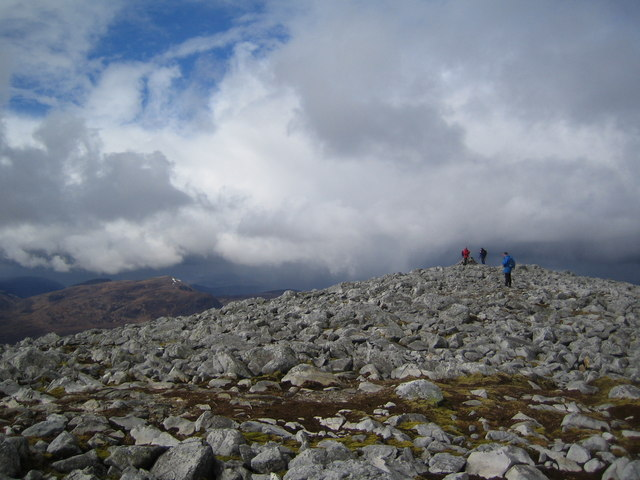 Stony summit of Carn nan Gobhar.